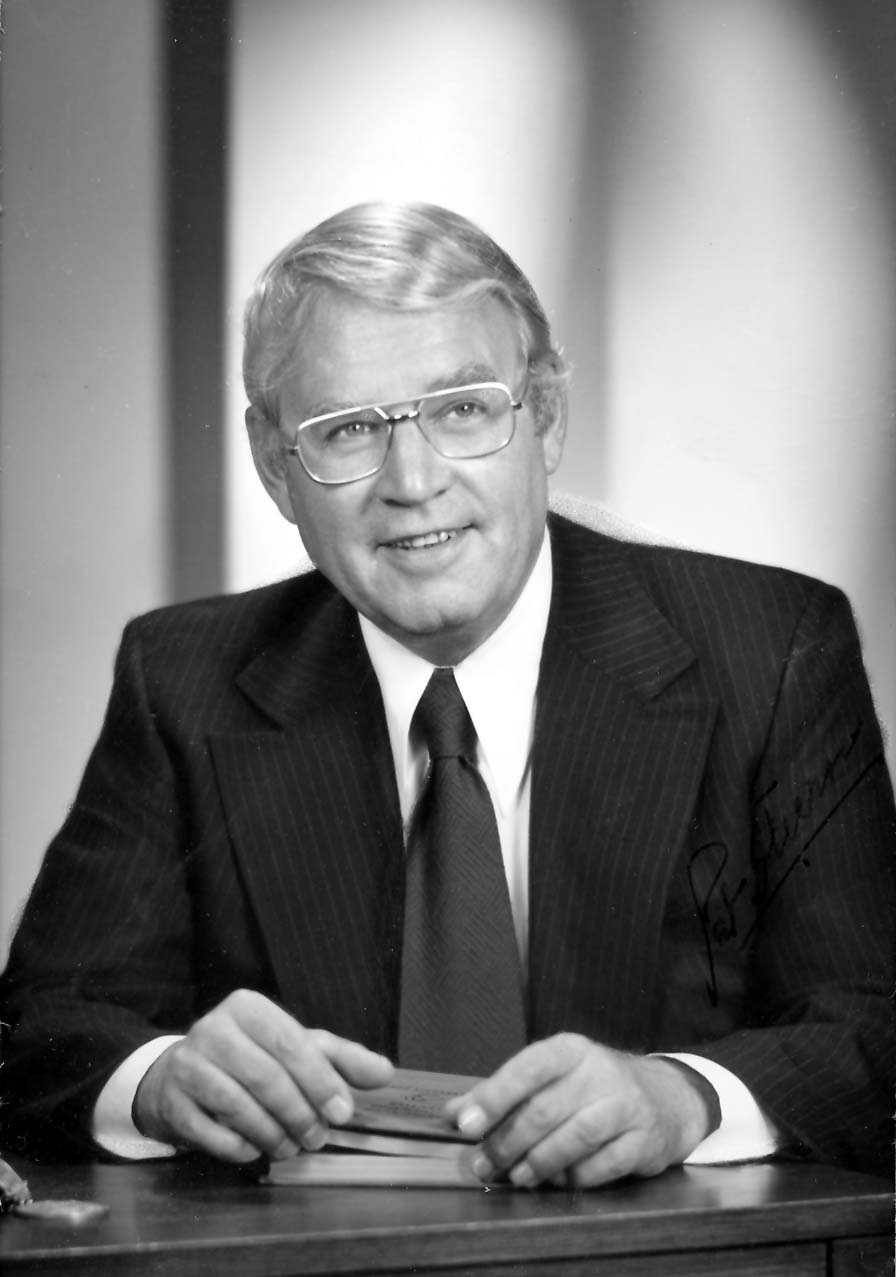 Portrait of Mayor Bert Weeks by Windsor photographer Pat Sturn with his chain of office on table beside him.